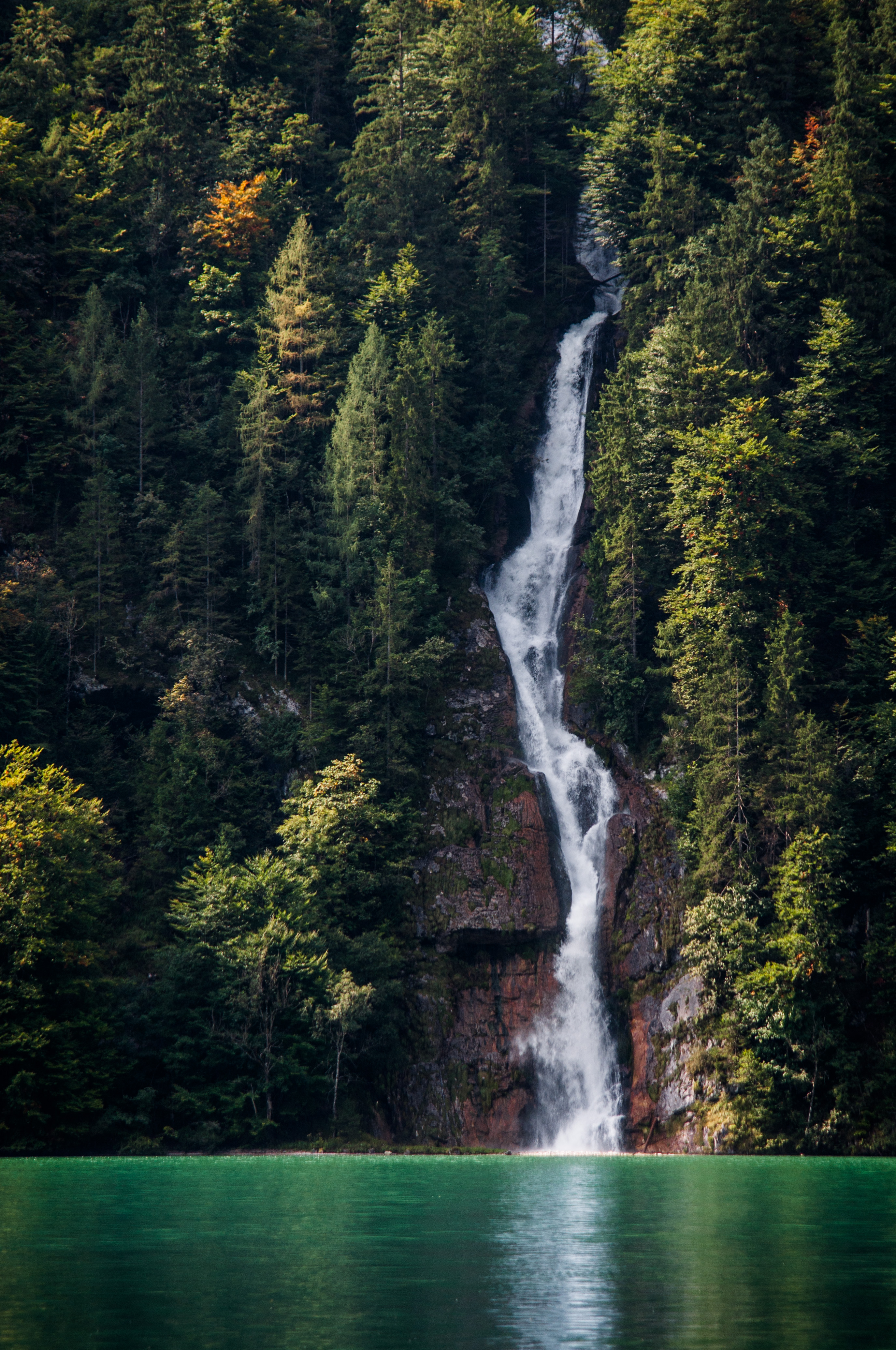 Schrainbachfall at the western bank of Königssee near Salet